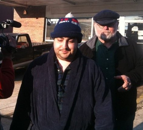 Hirsh and co-actor Walt Pledger on the set of "3 Cats and a Man" in 2011.